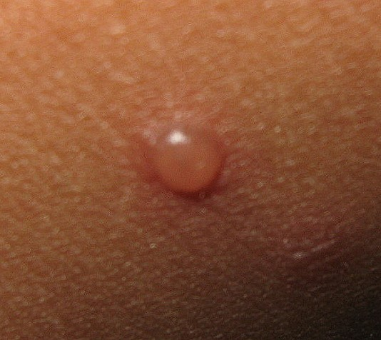 chickenpox vesicle